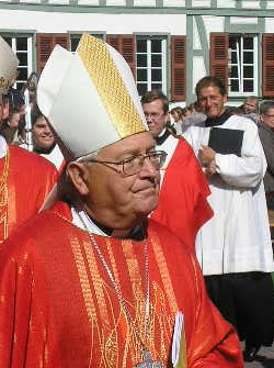 Gerhard Pieschl, Auxiliary Bishop in Limburg, during the "Kreuzfest" in Geisenheim, Germany